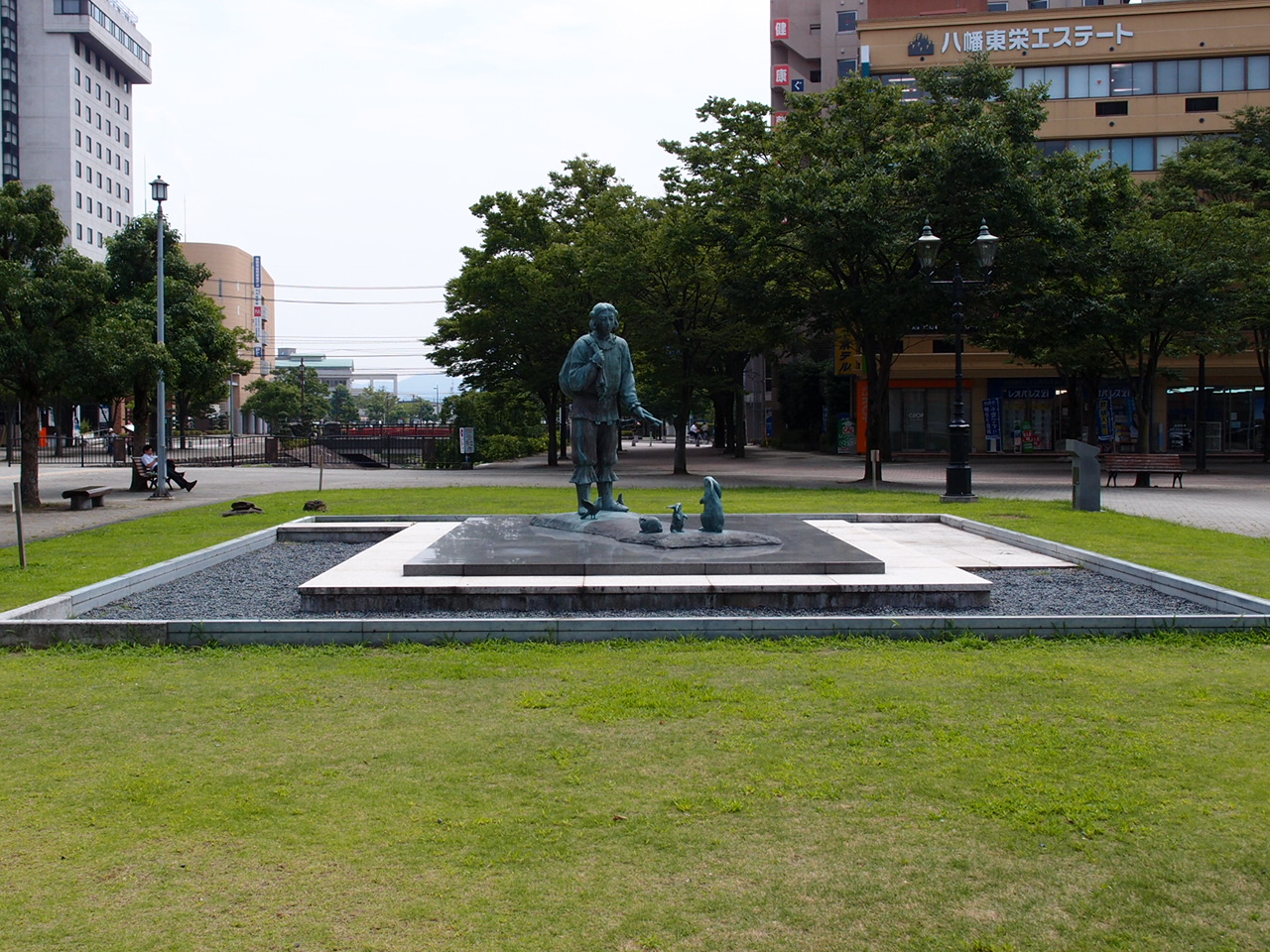 A sculpture near the south gate of Tottori Station in Japan.